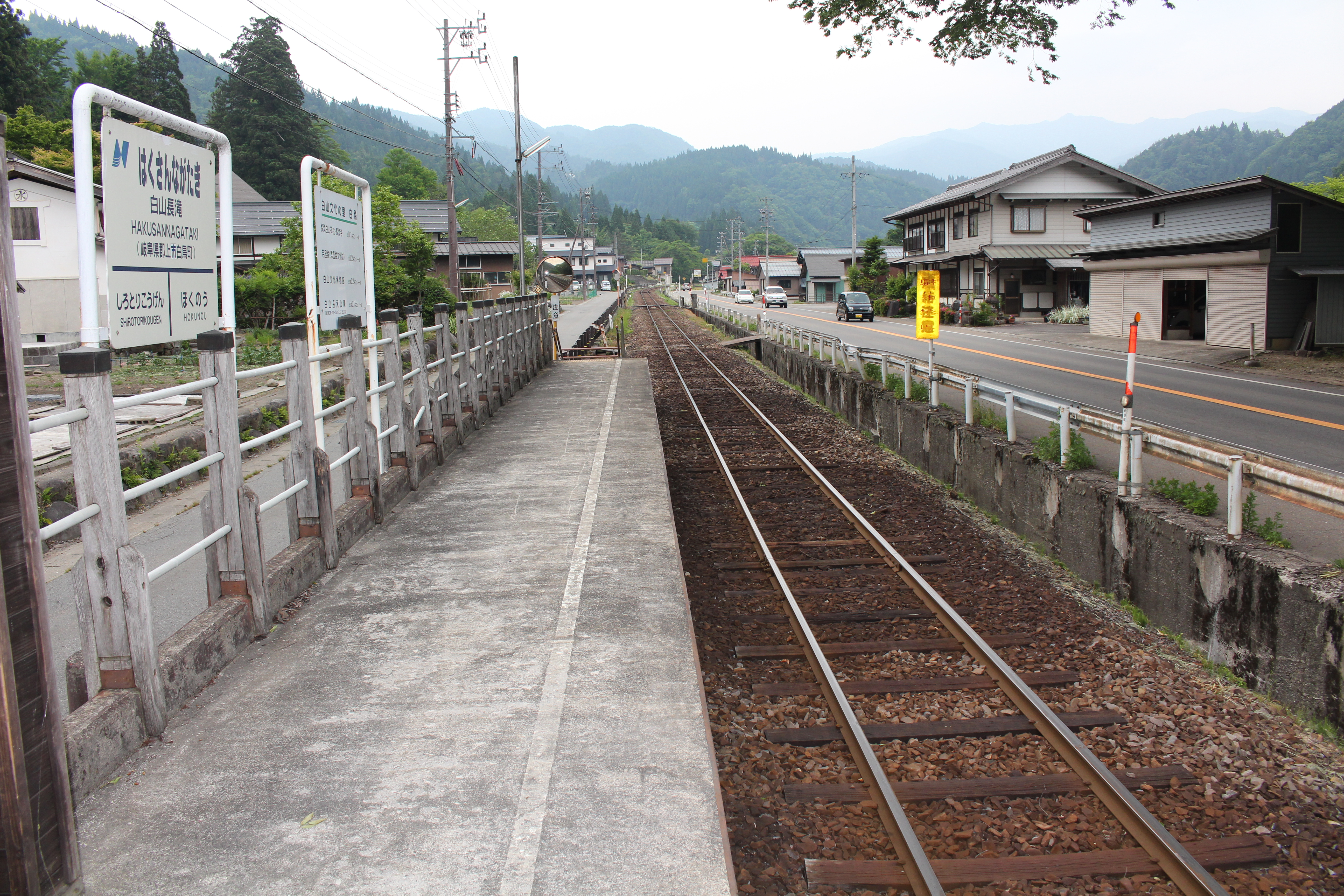 Hakusan-Nagataki Station f Nagaragawa Railway Etsumi-Nan Line and R156 in Gujō, Gifu prefecture, Japan.